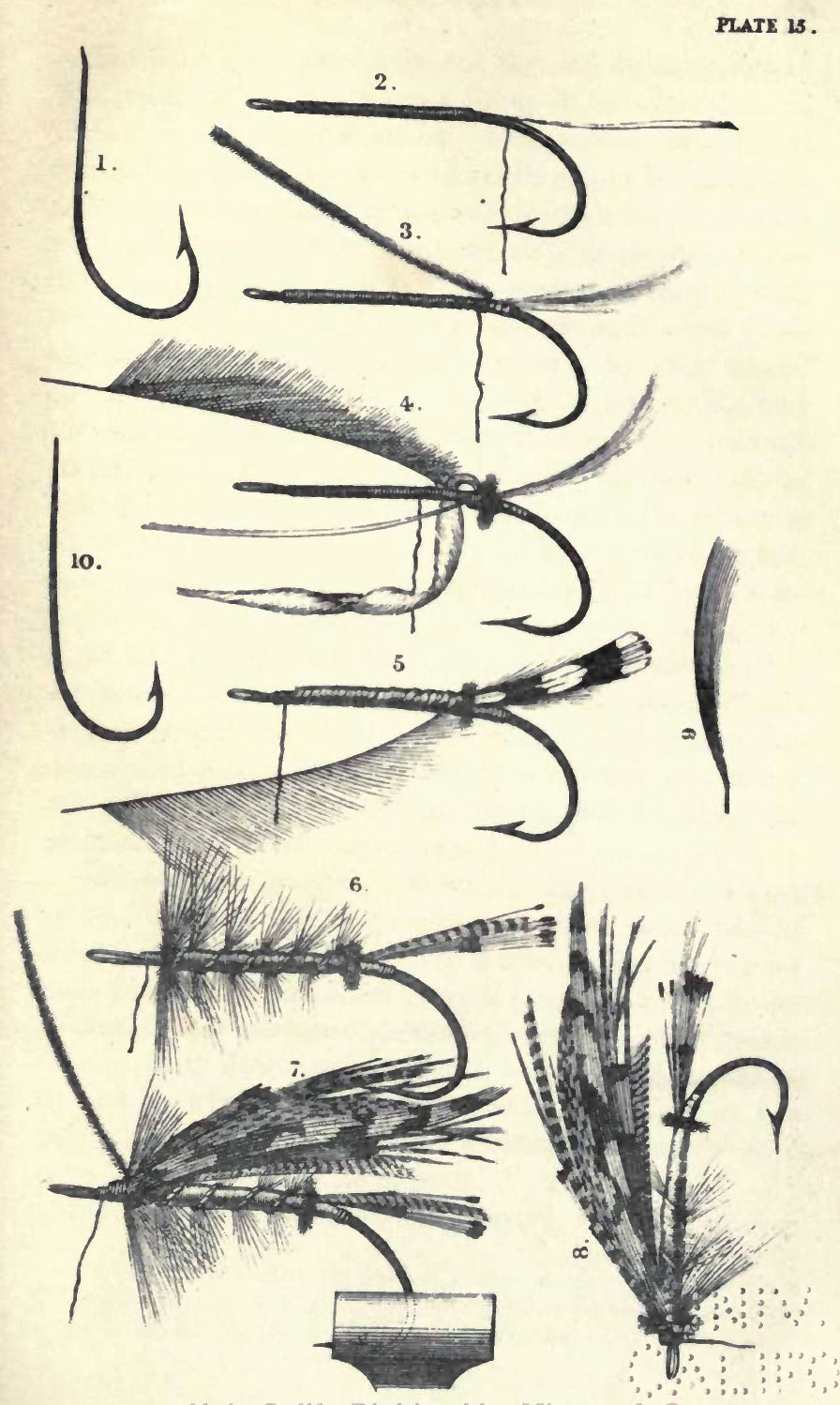 Plate XV - Salmon Fly Dressing from A Book on Angling, Francis Francis, 1876